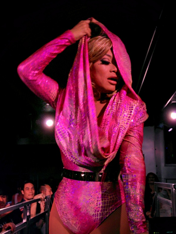 Jujubee performing "Missing You" by the Black Eyed Peas at The Café in San Francisco, California, United States.